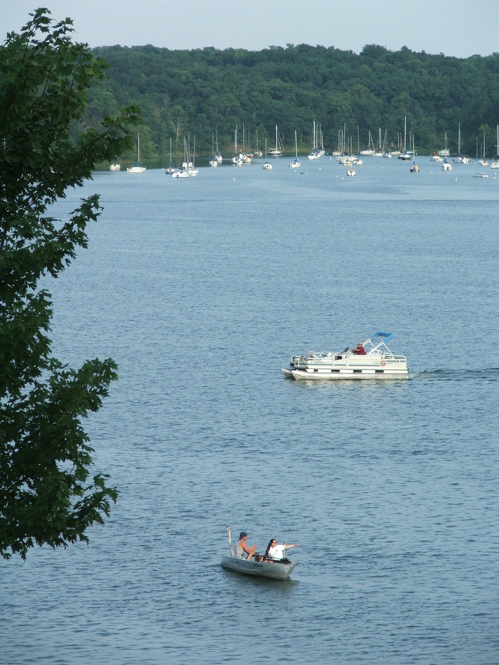 Lake Jacomo with marina in background. Jackson County, Missouri USA.